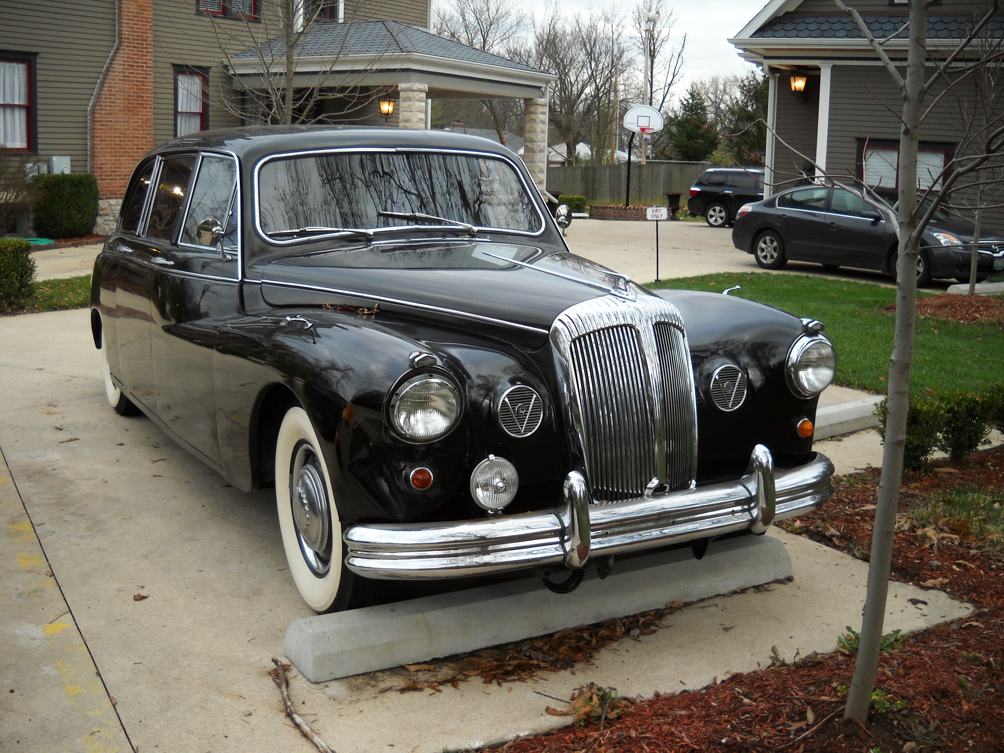 Location: Missouri